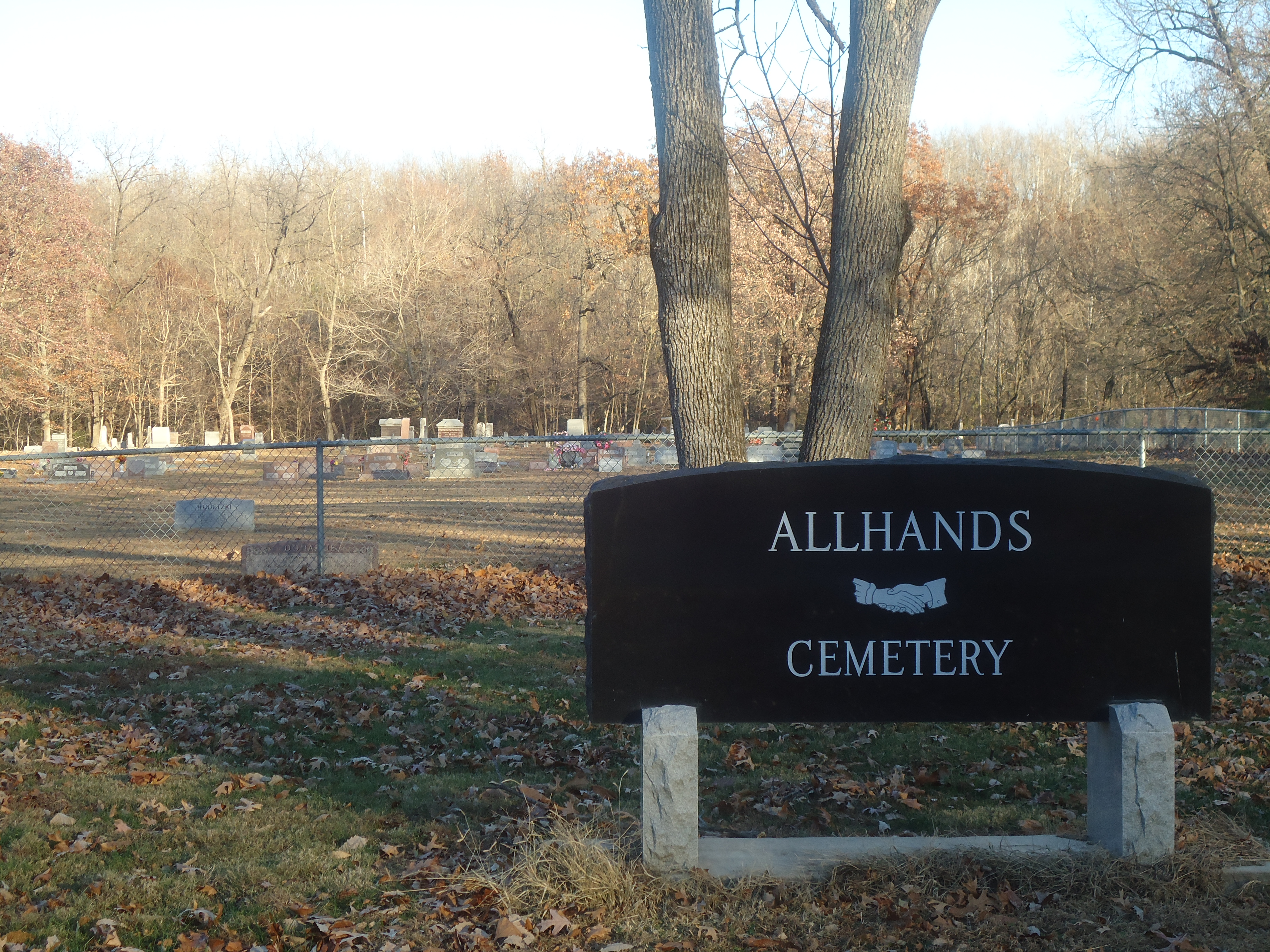 This is a picture of Allhands Cemetery located within Kickapoo State Park.